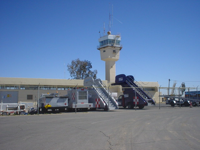 Mexicali International Airport. Control Tower.